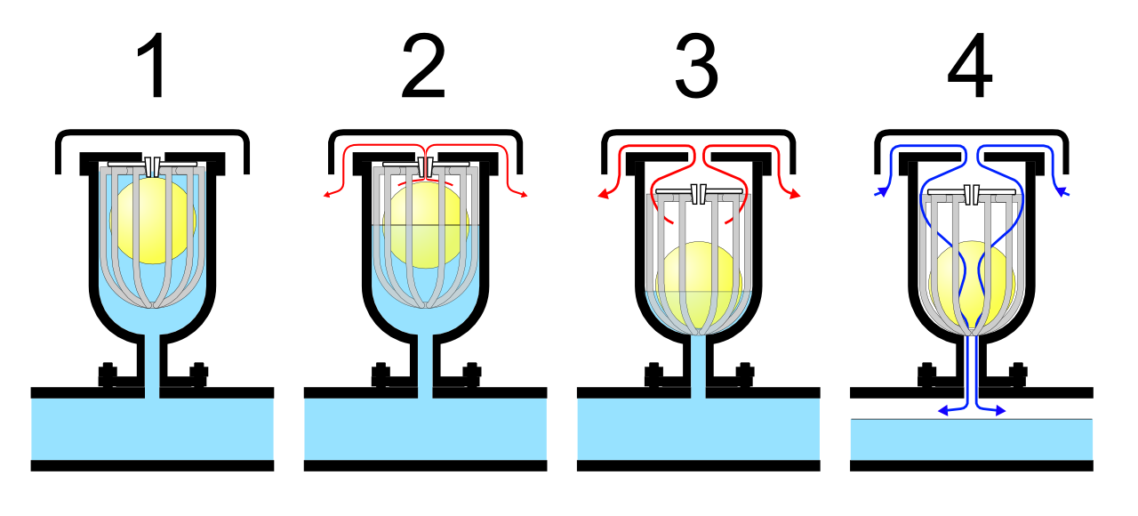 Air valve model and workings